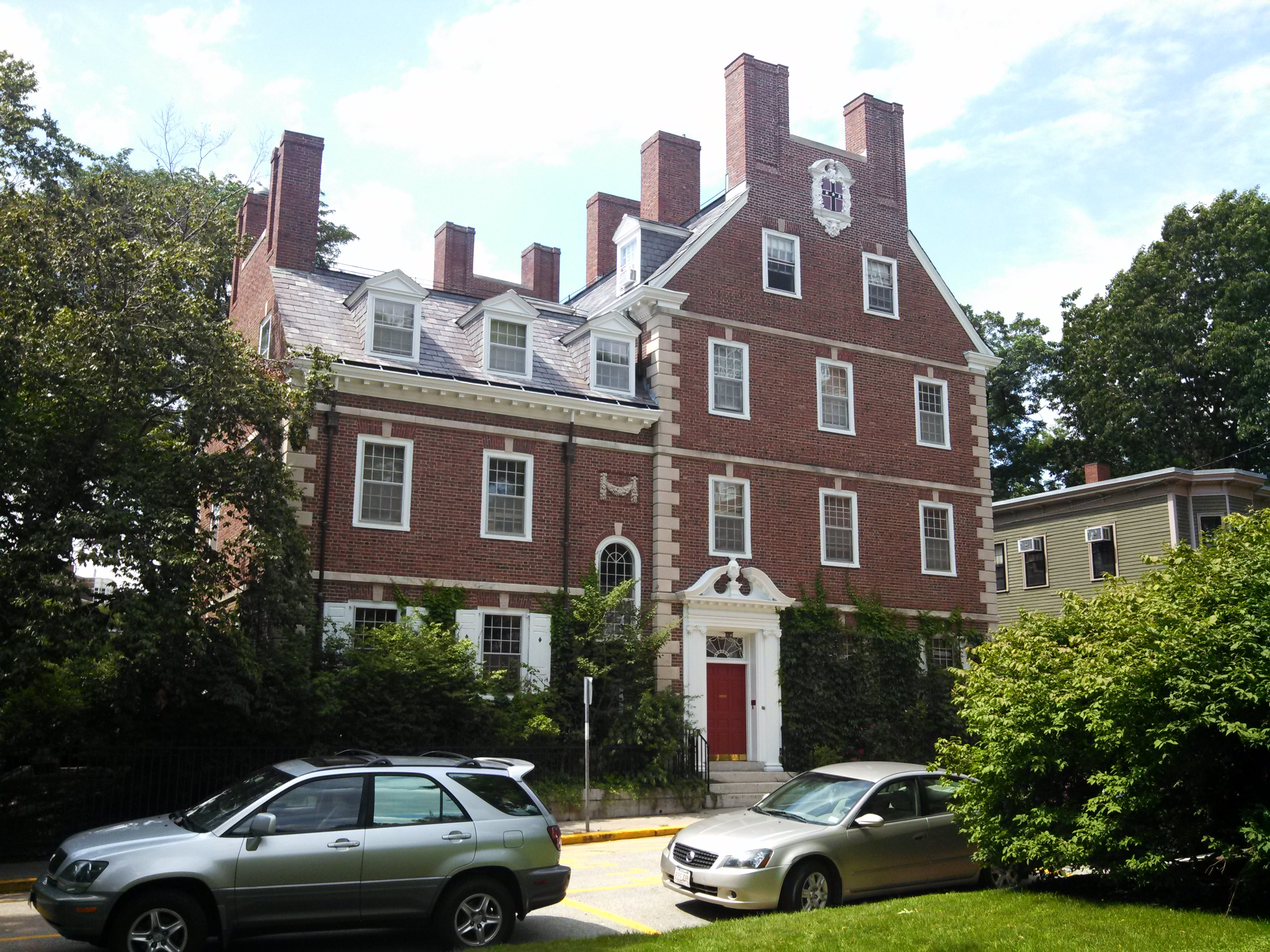 Masters Lodging, Kirkland House, Harvard University, Cambridge Massachusetts